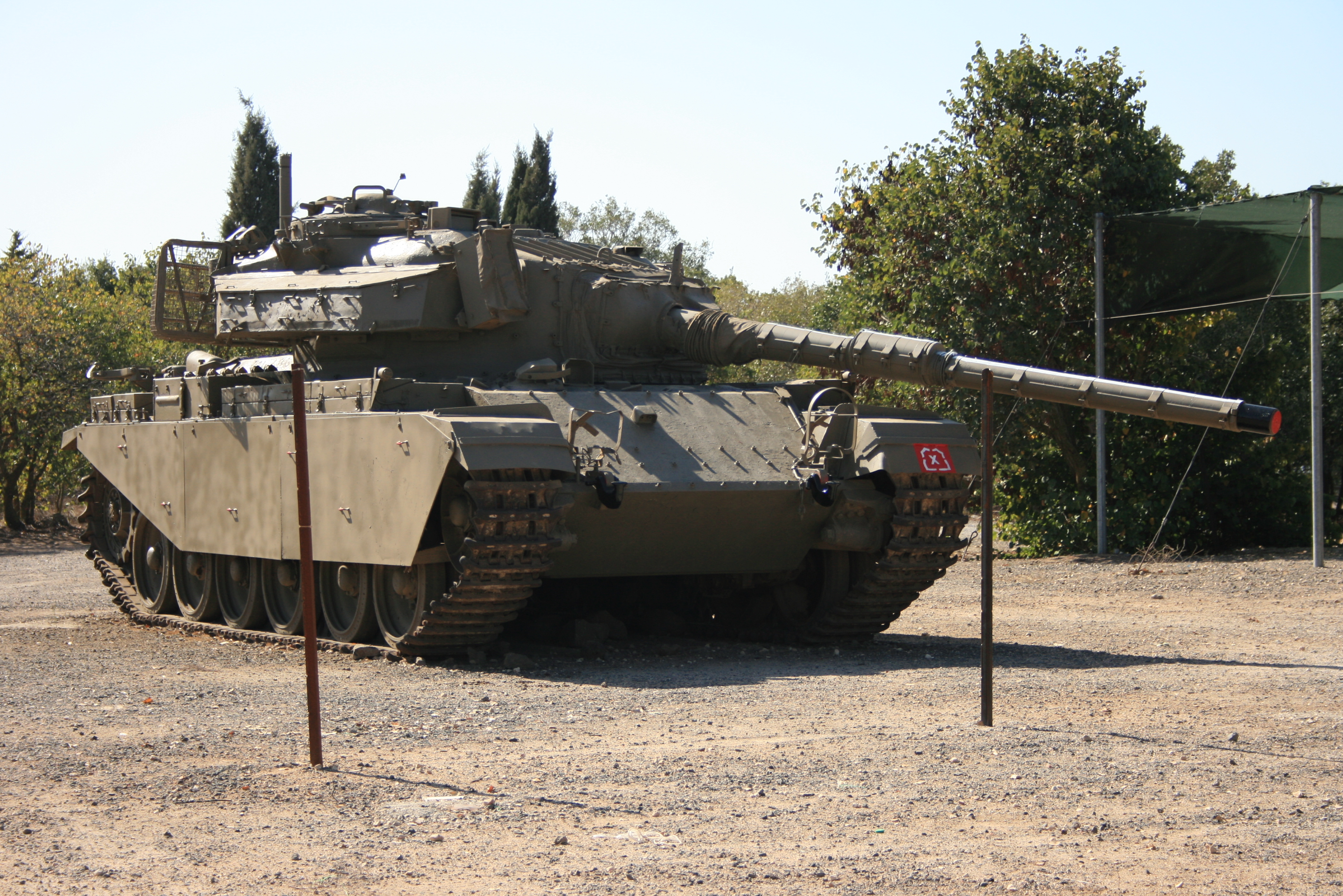 An IDF Sho't (Centurion) as part of the 679th Brg. Memorial, Golan Heights.